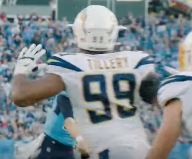 Jerry Tillery 2019. Image from video Titans Mic'd Up vs. Chargers (Week 7) | Sounds of the Game, ~ 02:41.